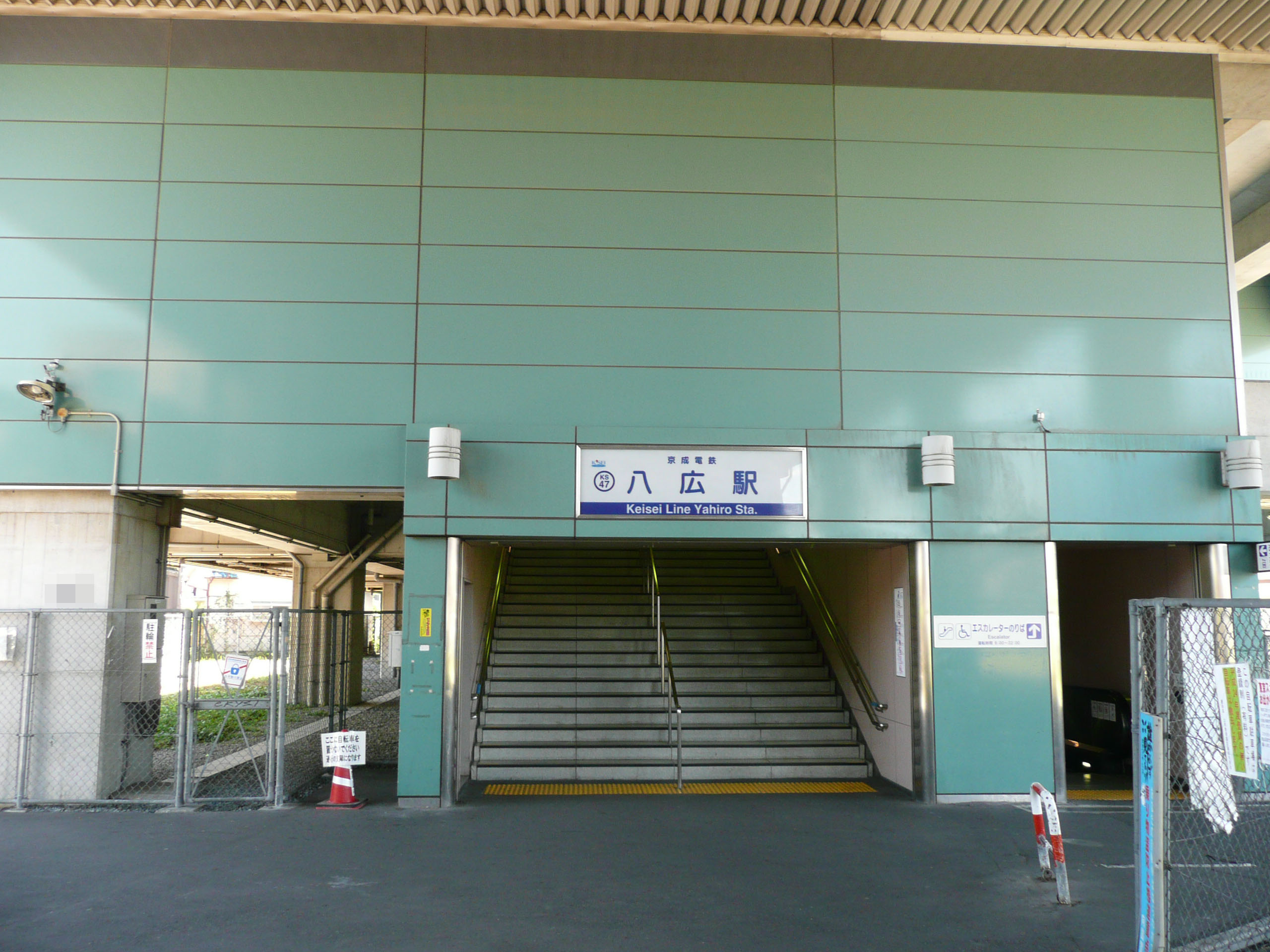 Yahiro Station